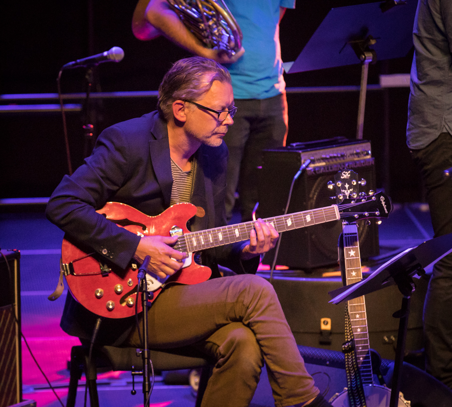 Nils-Olav Johansen with Trondheim Jazz Orchestra, Eirik Hegdal and Joshua Redman at the stage of Kongsberg Musikkteater. The concert was part of Kongsberg Jazzfestival and took place on 06. July 2017. Solist: Joshua Redman (saxophone) Artistic director: Eirik Hegdal (saxophone) Trondheim Jazz Orchestra: Trine Knutsen (flute) Stig Førde Aarskog (clarinet) Eivind Lønning (trumpet) Stein Villanger (french horn) Daniel Weiseth Kjellesvik (french horn) Tor Haugerud (drums) Erik Johannessen (trombone) Ola Kvernberg (violin) Marianne Baudouin Lie (cello) Øyvind F. Engen (cello) Nils-Olav Johansen (guitar) Ole Morten Vågan (double bass)